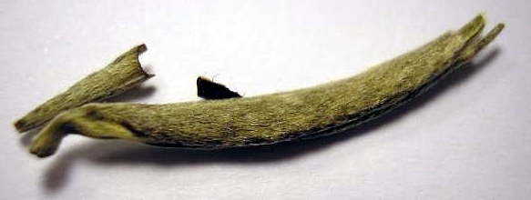 Cropped image. This is Zheng He Bai Hao Yinzhen. Scale is The length of the leaf is approx 30mm.